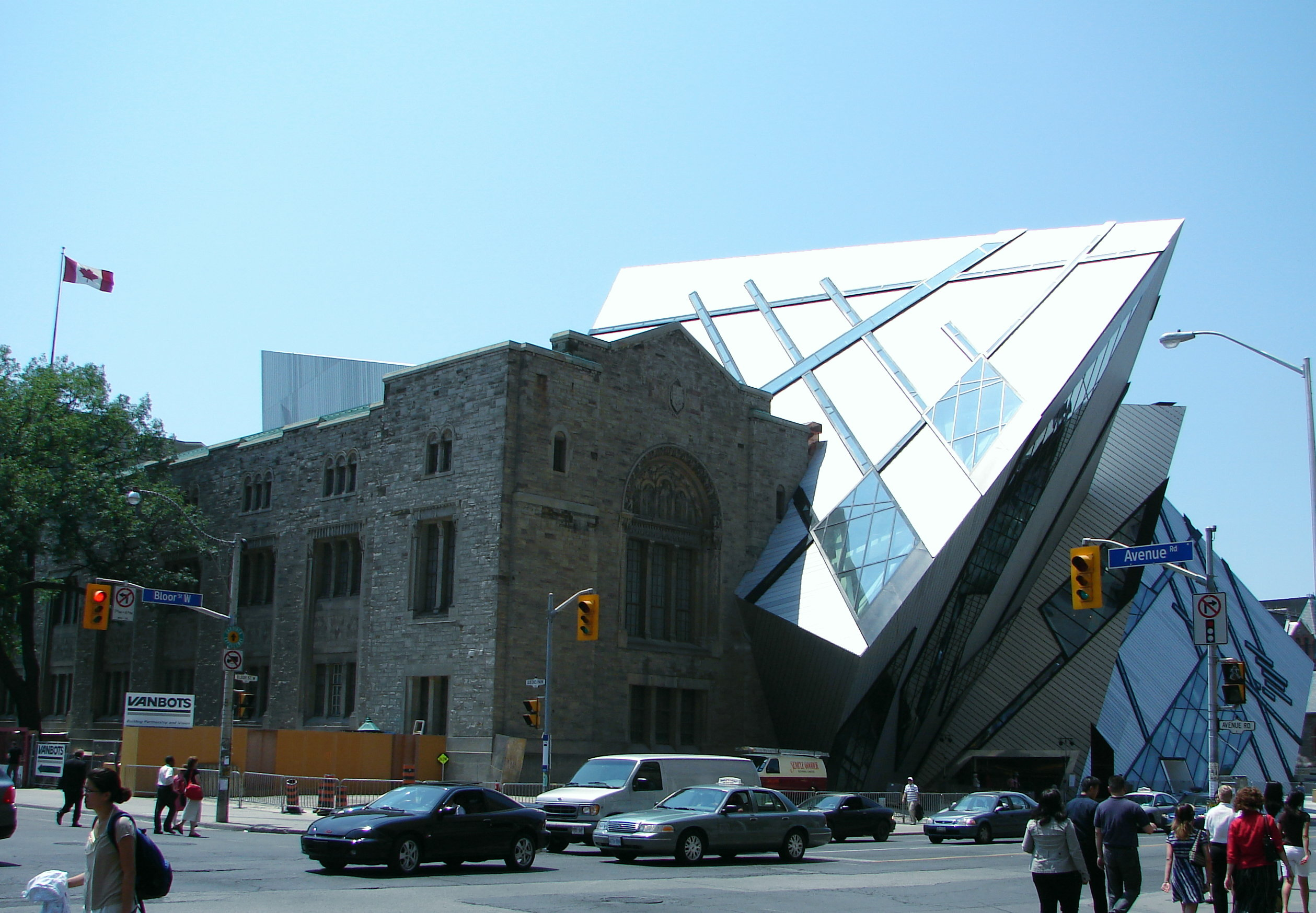 Depicted place: Royal Ontario Museum